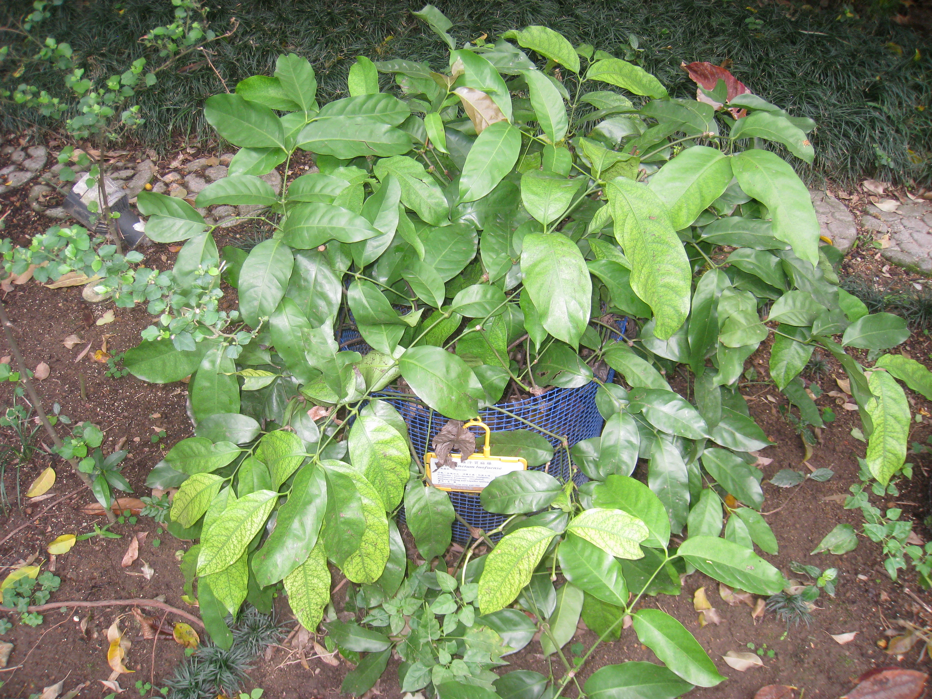 Gnetum luofuense. Plant specimen in the Hong Kong Zoological and Botanical Gardens, Hong Kong.